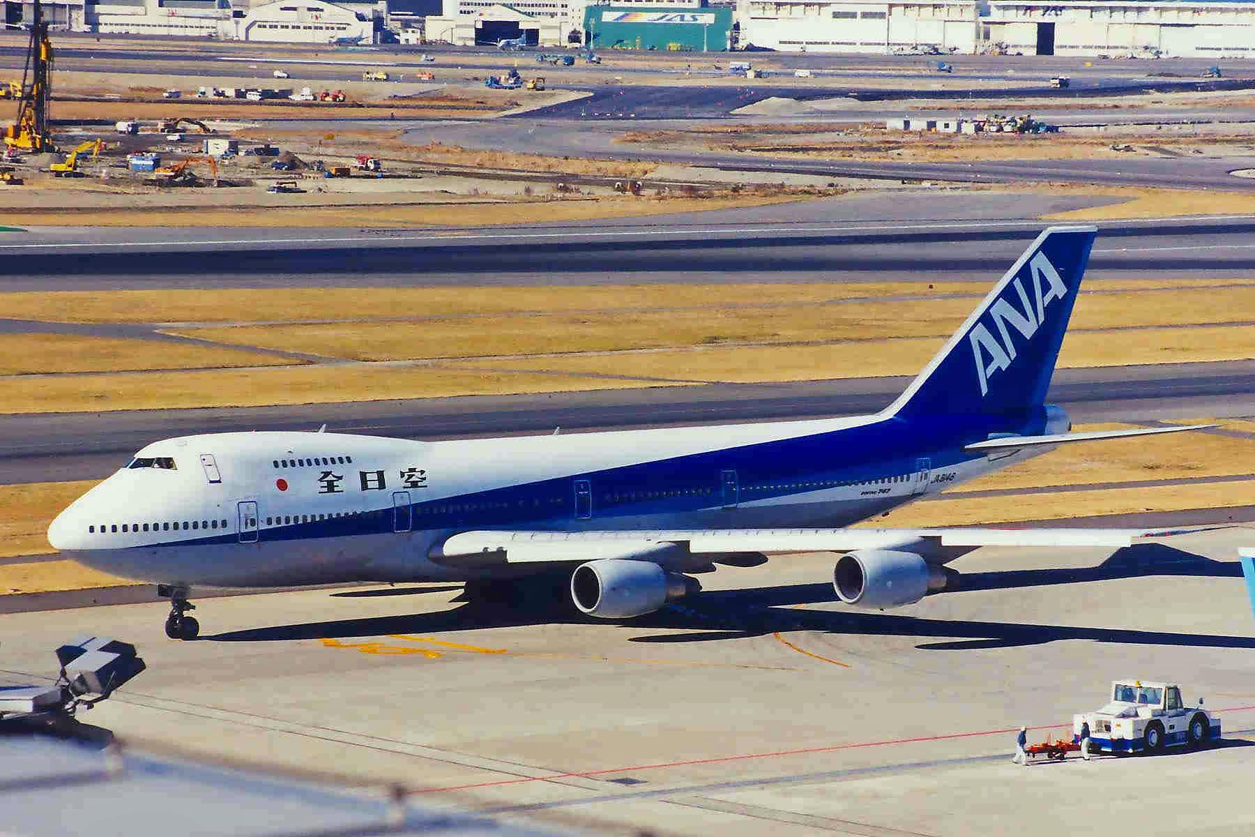 This aircraft was involved in All Nippon Airways Flight 857 hijacking at Hakodate Airport on June 21, 1995. It was stormed by the Special Armed Police afterwards.